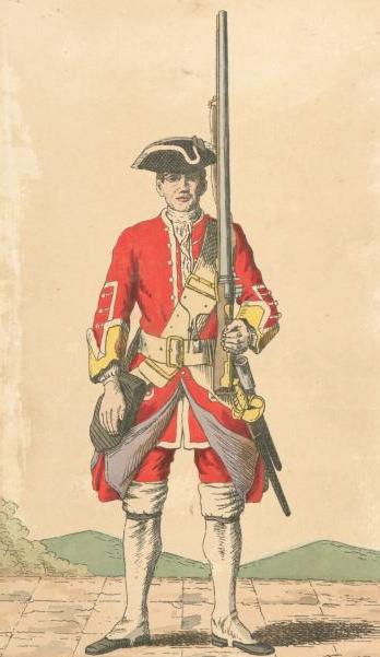 Soldier of the 38th regiment (1742)